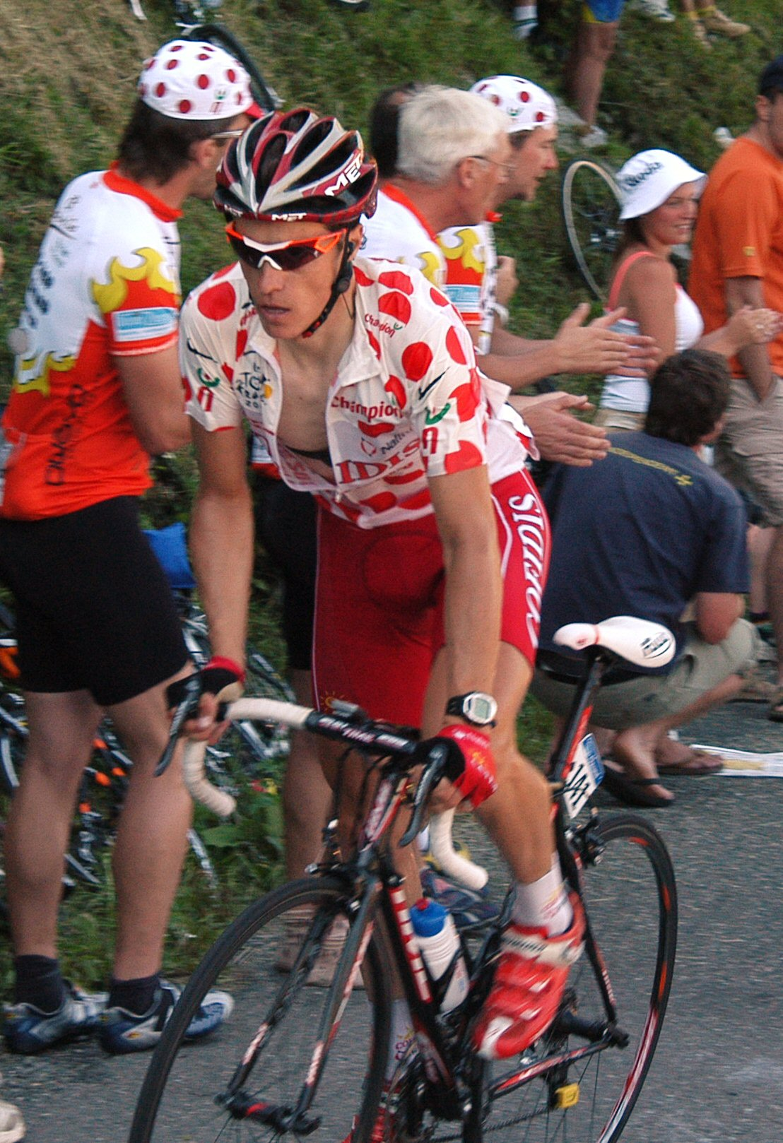 Sylvain Chavanel at stage 7 of the Tour de France 2007 in the polka dot jersey on the Col de la Colombière.